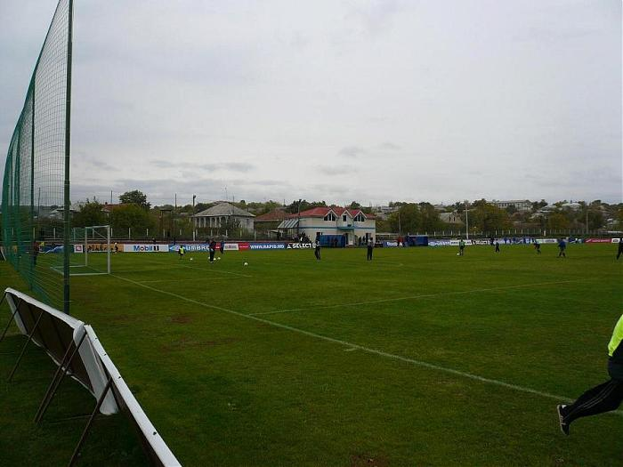 Rapid Ghidighici Stadium